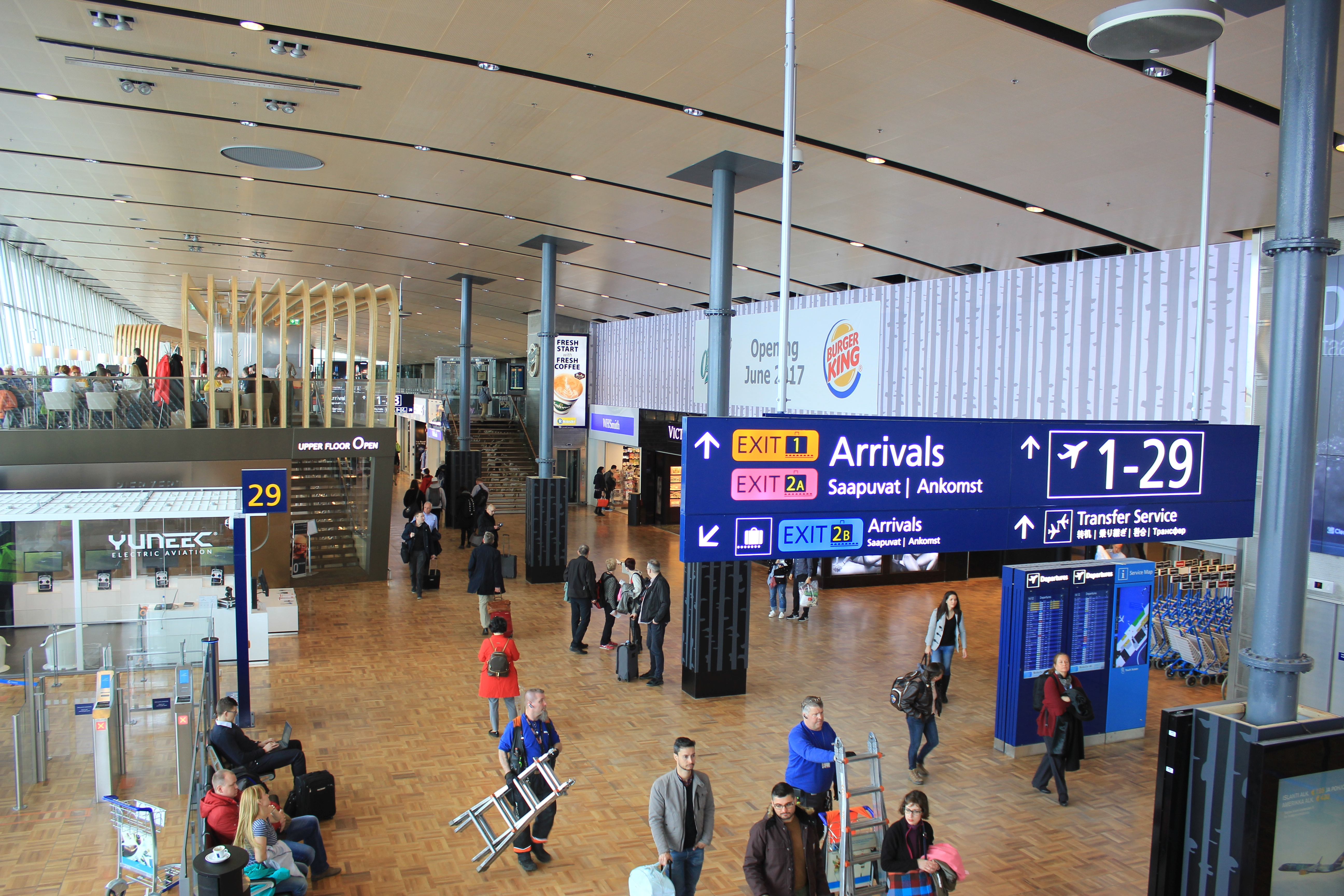 Helsinki-Vantaa Airport (HEL/EFHK) - Terminal 2